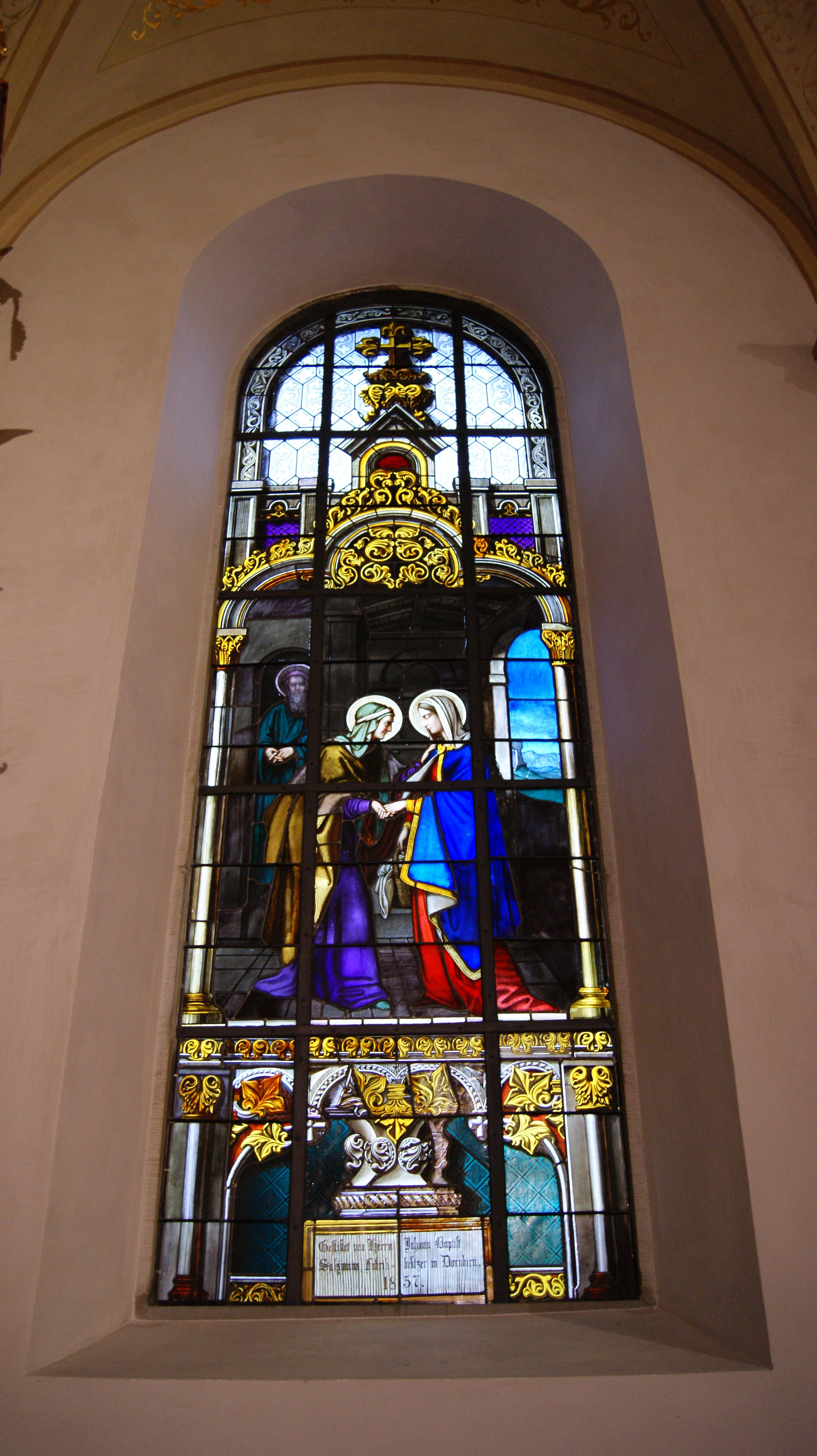 Parish Church of the Visitation in Haselstauden. Pilgrimage church in Dornbirn, Vorarlberg, Austria. Holy Mary Visitation (stained glass by Louis Mittermeier, 1857).